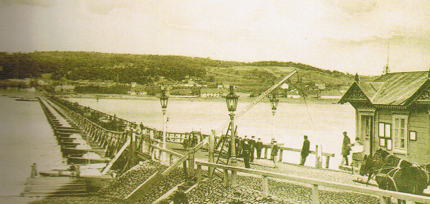 Bridge in Włocławek on the river Wisła, photo made in 1900.